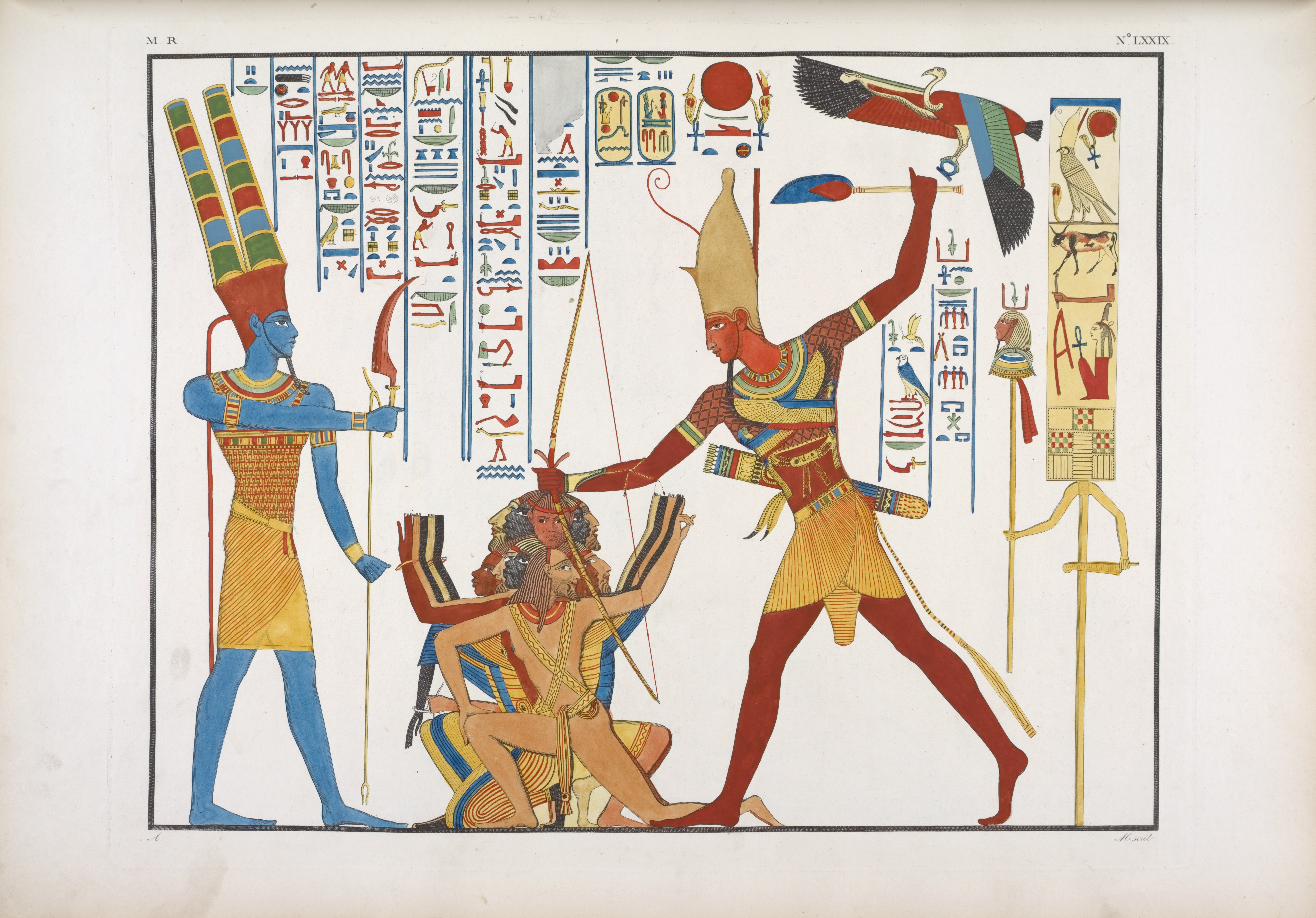 For Ramses III read Ramsès II / L'Égypte antique illustrée de Champollion et Rosellini. (Paris 1933, p. 94).